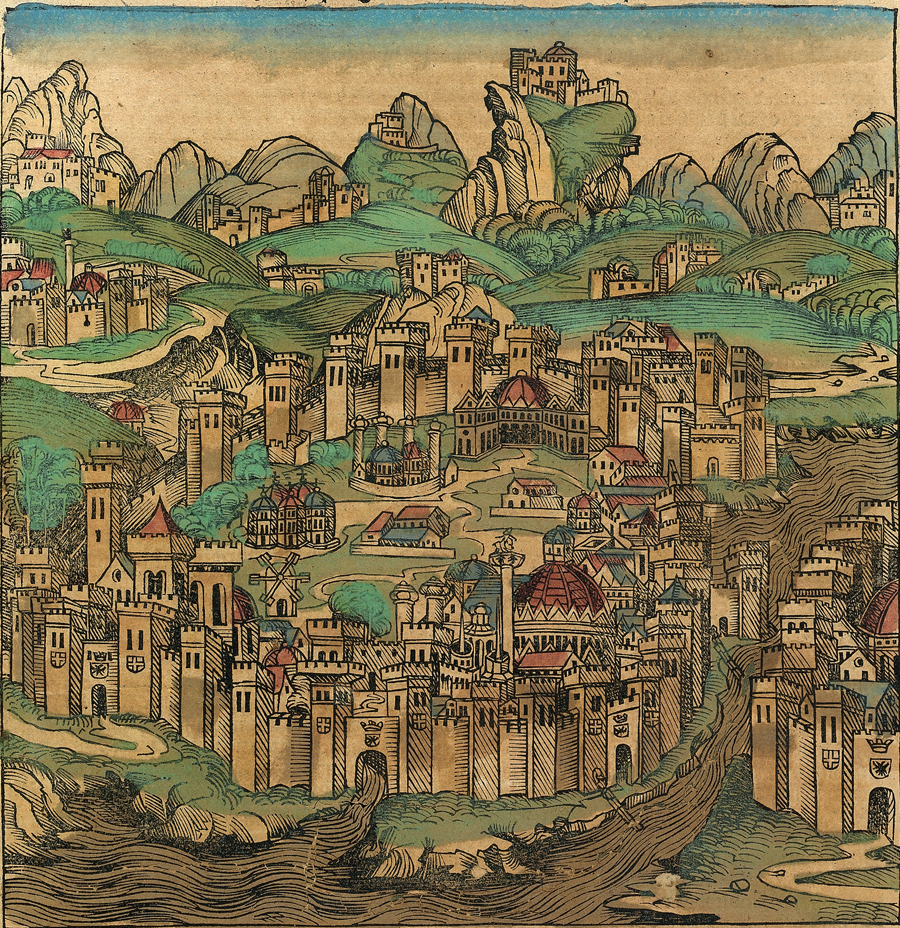 Illustration from the Nuremberg Chronicle (Latin copy in Sao Paulo)